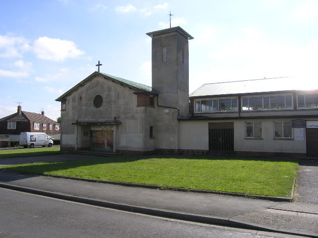 Methodist Church, Mowcroft Road, Hartcliffe, Bristol